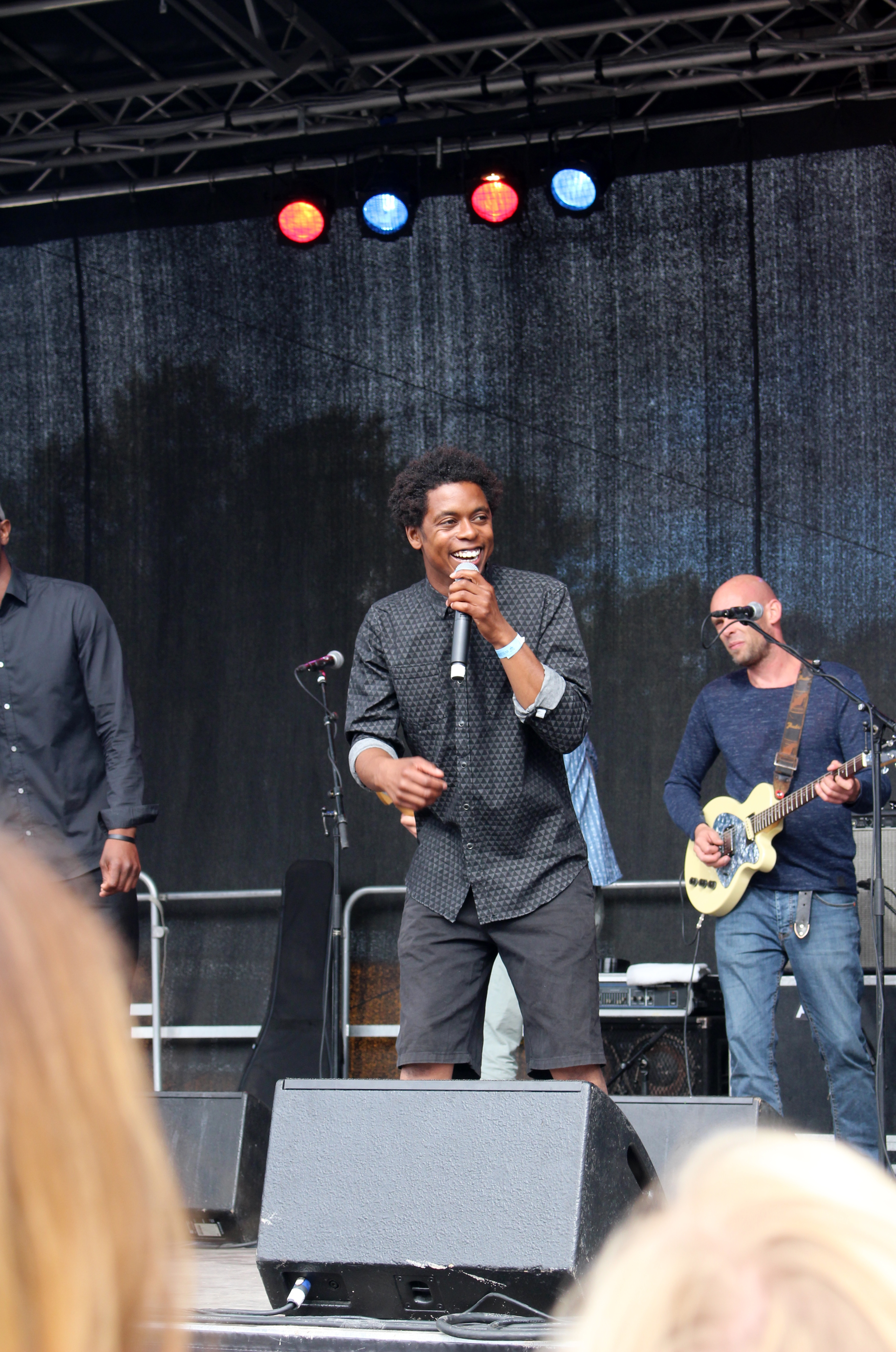 a small August music festival in Leiden